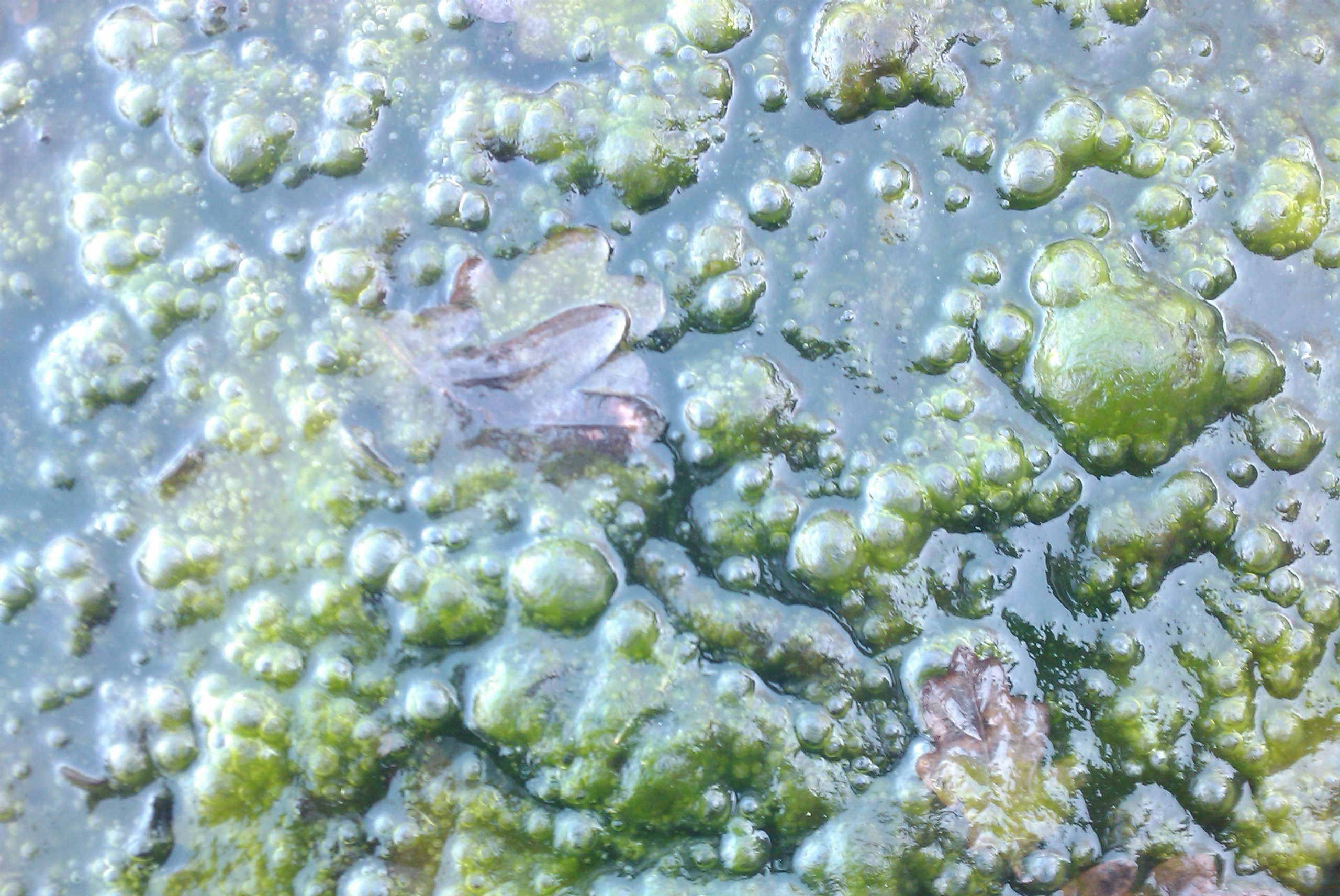 Taffs Well Thermal Spring Spirogyra Algae growing in the oveflowed area to the front of the spring building outside not inside